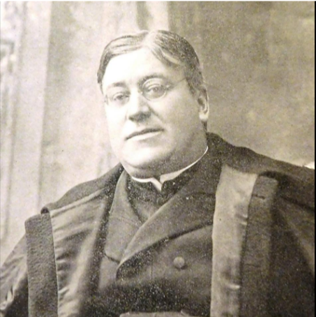 Father John Fleming, pastor of St. Mary's Church in Dedham from 1890 to 1923.